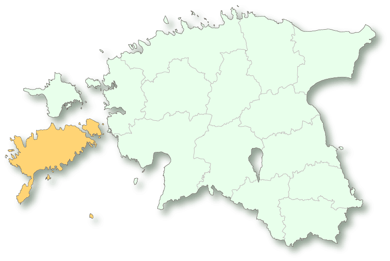 Locator map of Saare County, Estonia. County borders as of 2005